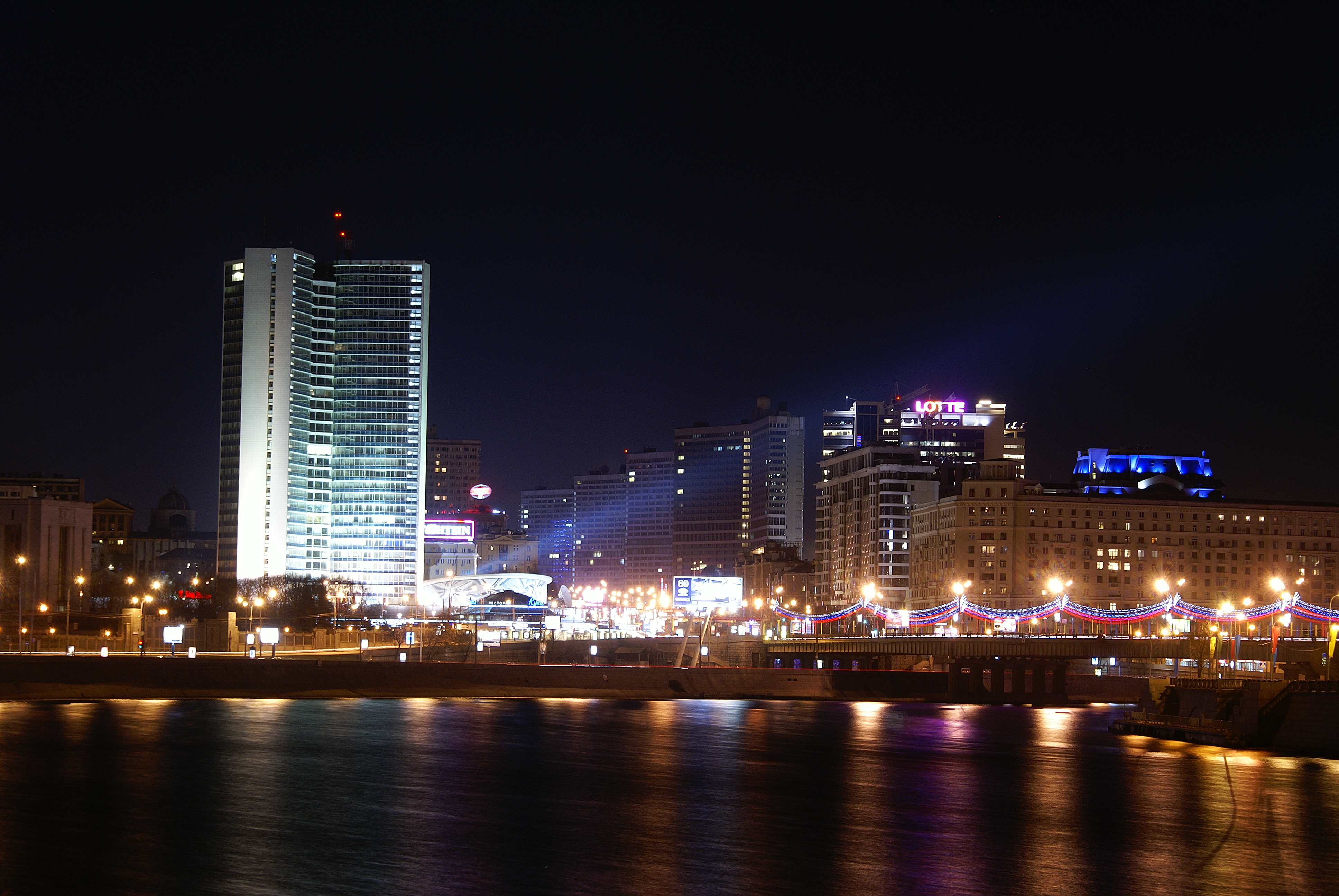 Moscow City Hall, New Arbat St., Moscow River